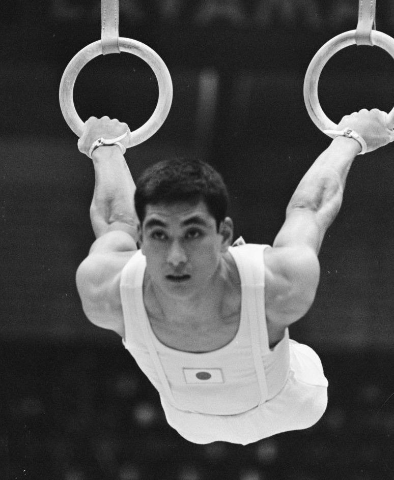 Haruhiro Yamashita (Matsuda) at the 1966 World Championships